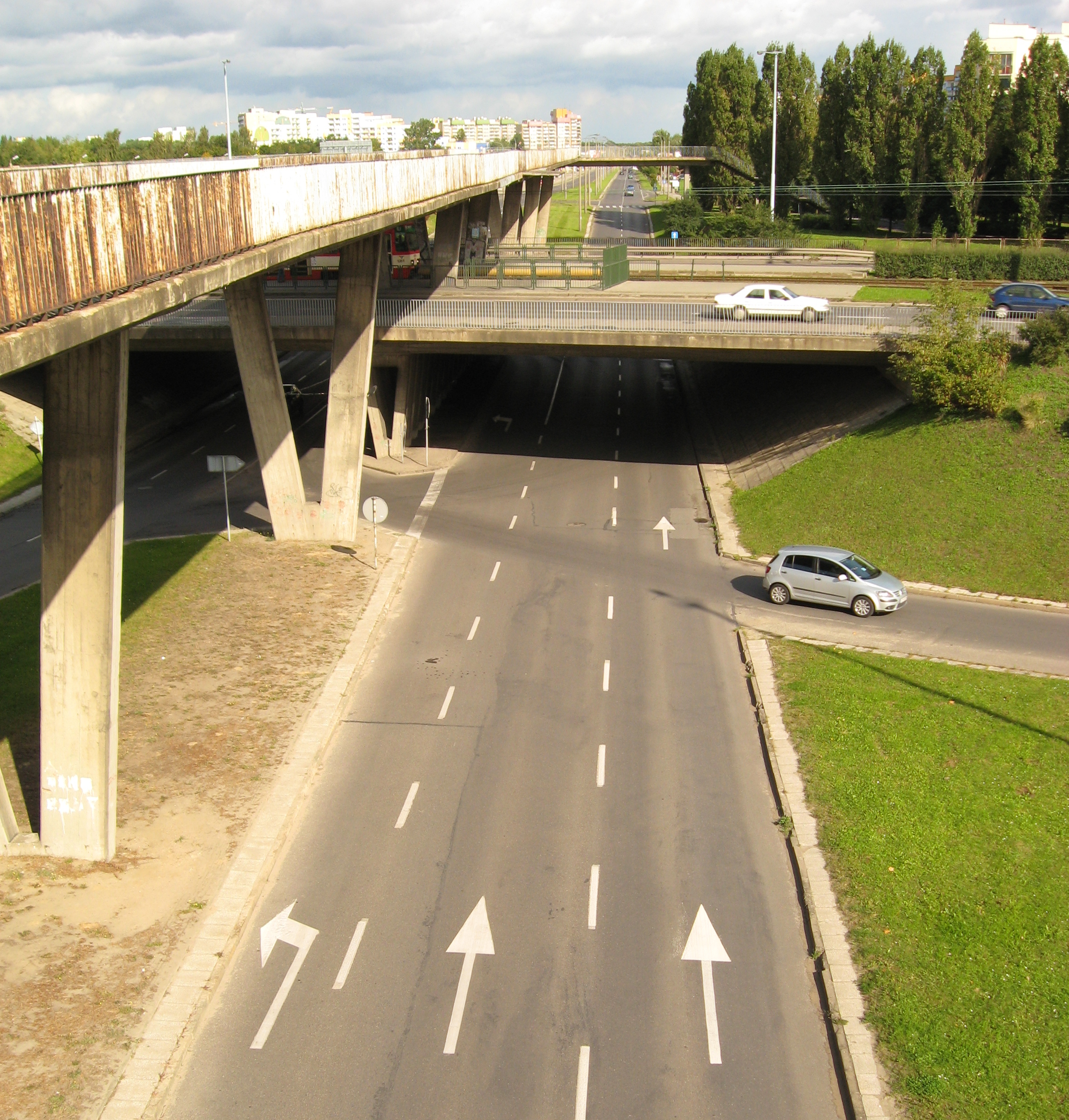 3 lanes